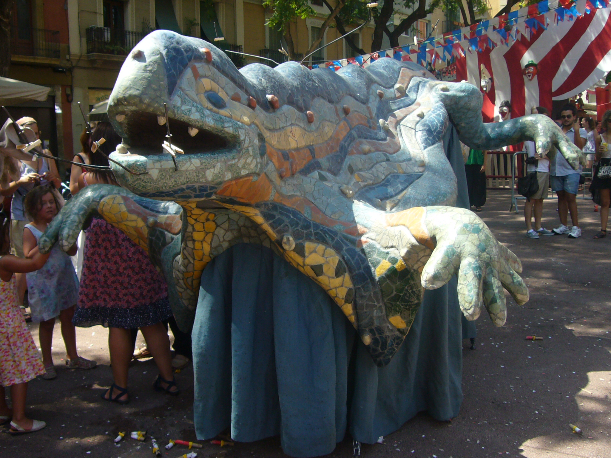 Festa Major de Gràcia 2012 - Drac Gaudiamus